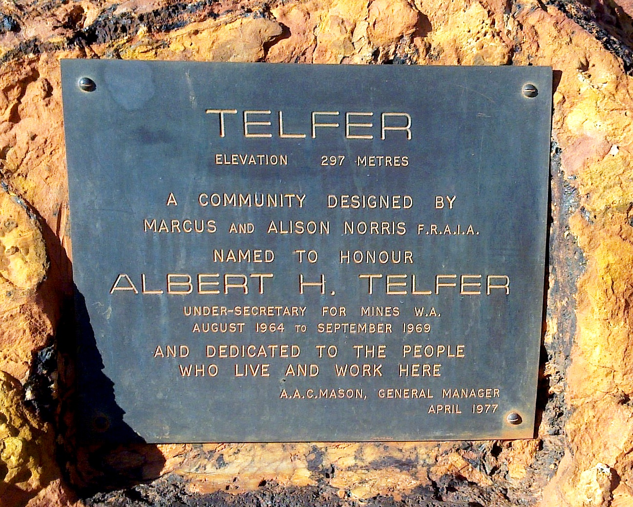 This is the plaque located at Telfer, Western Australia detailing who designed the town and how it got it's name.